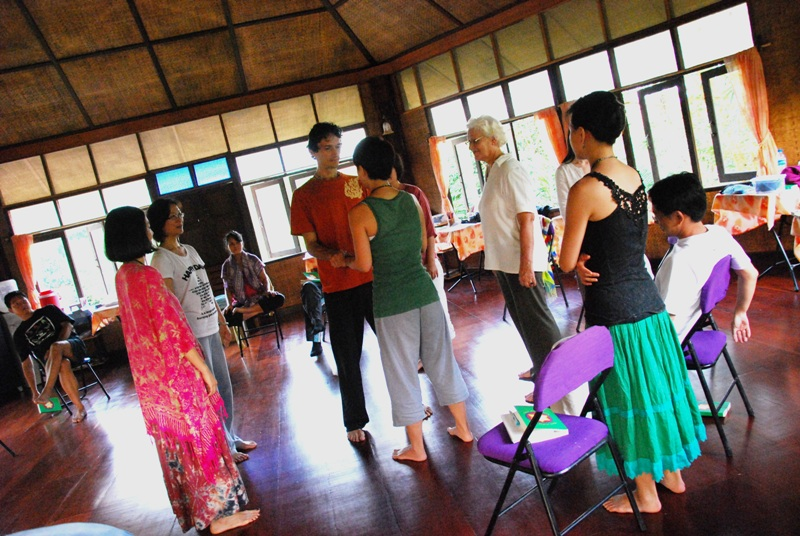 Family Constellation